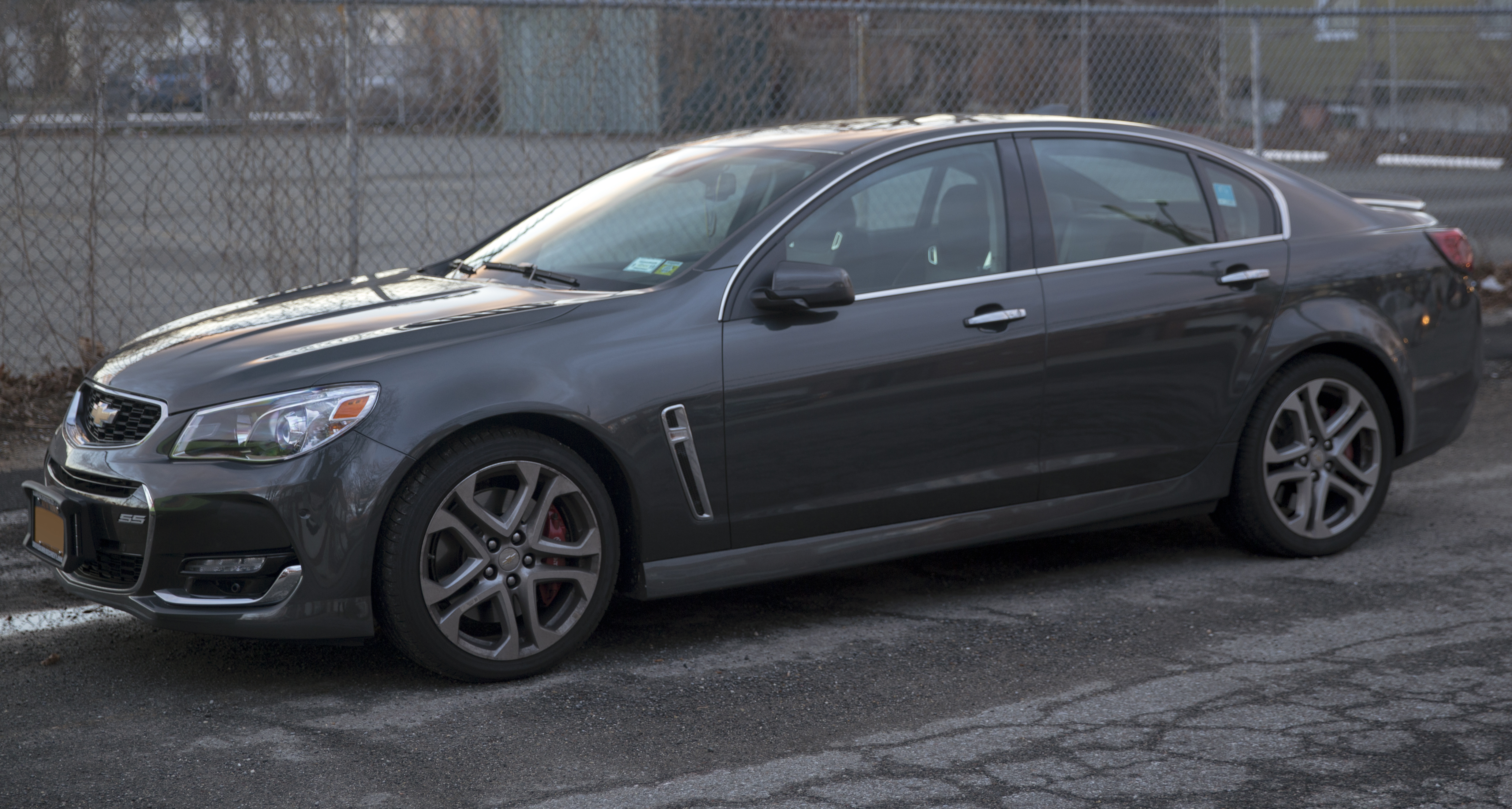 A 2017 Chevrolet SS in Nightfall Gray Metallic. Last model year, and a model-year-specific shade.